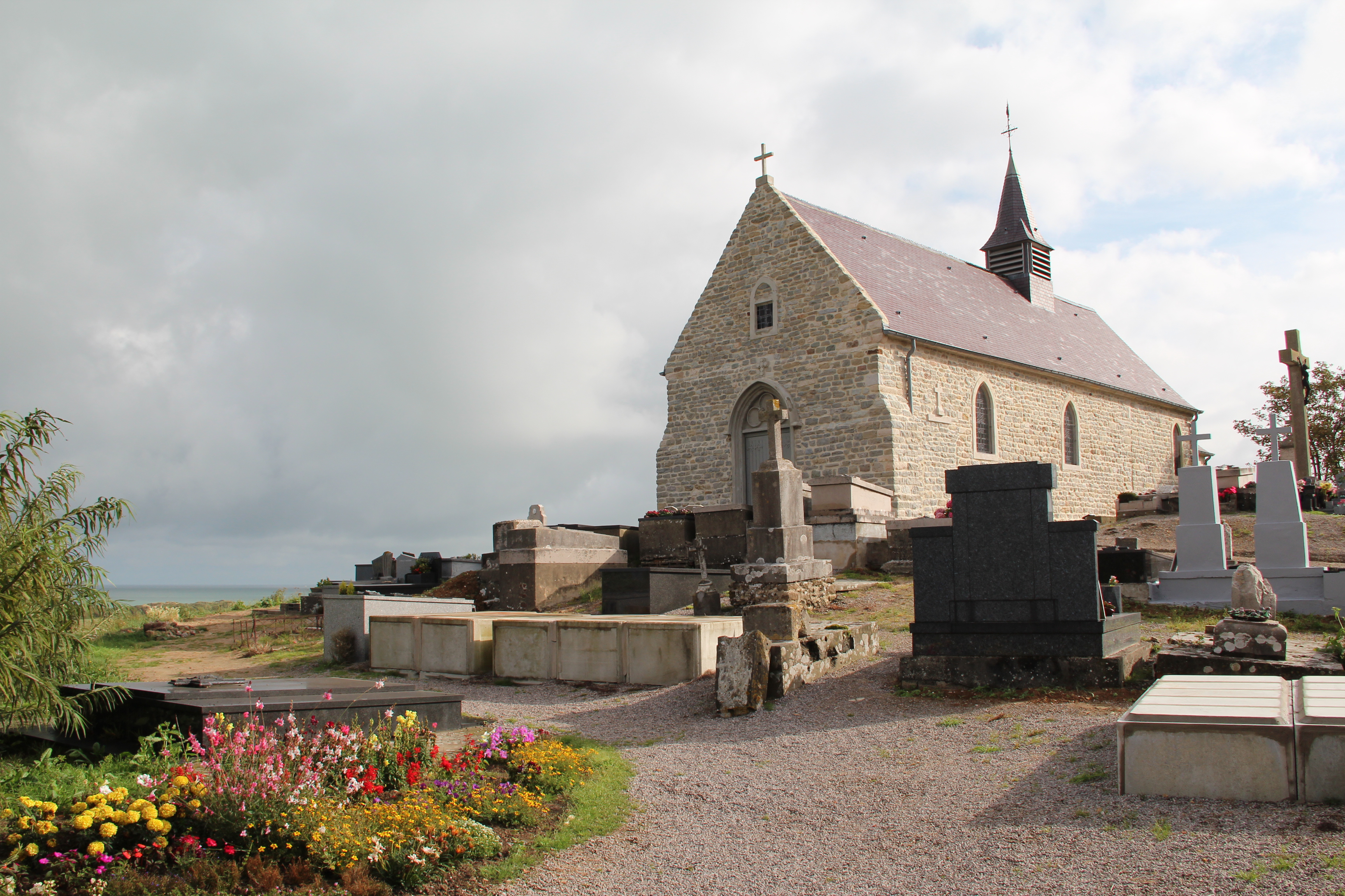 Tardinghen (Pas-de-Calais), France. – The church of Saint Martin (XVIth century.